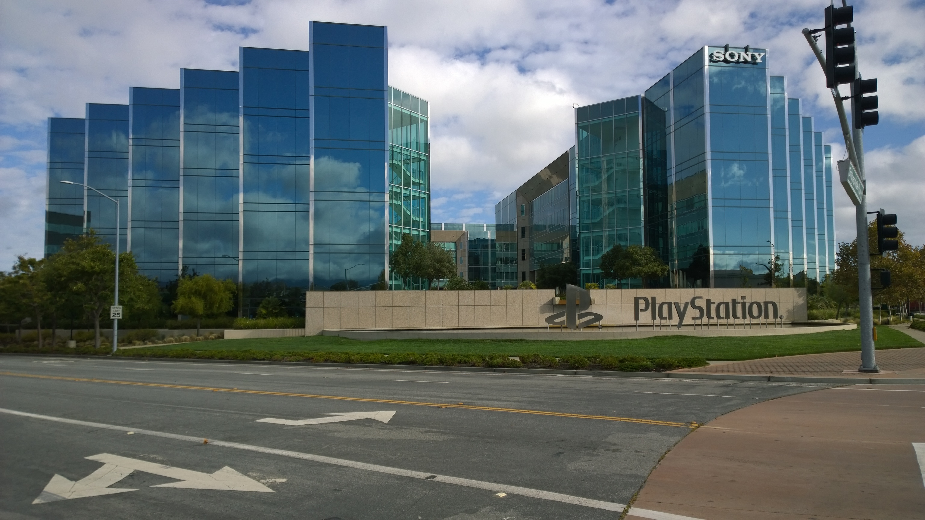 Sony Interactive Entertainment headquarters in San Mateo, California.